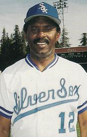 Professional baseball manager Nate Oliver